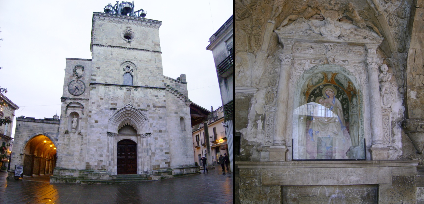 Photo collage of the church of Santa Maria Maggiore in Guardiagrele, in the province of Chieti, Abruzzo. Right: the front of the church; left: the Madonna del Latte